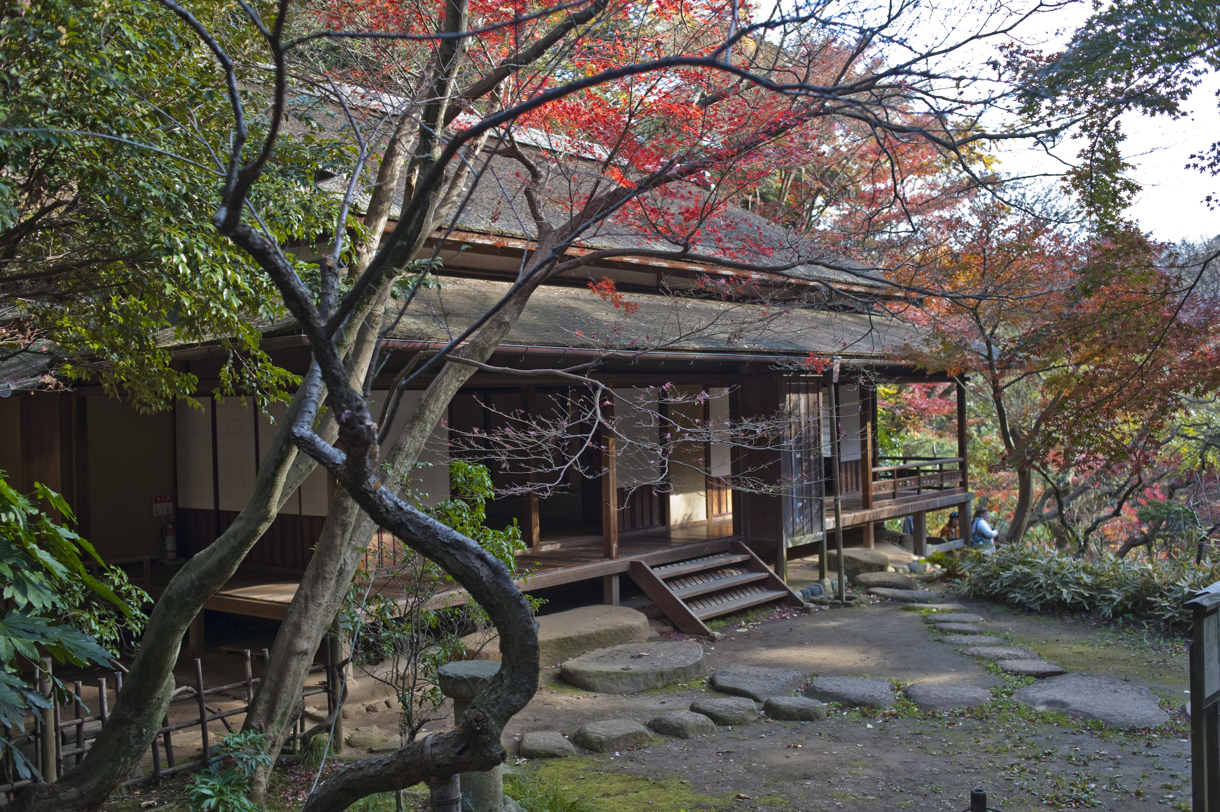 A pavilion at Sankeien Park, Yokohama, Japan